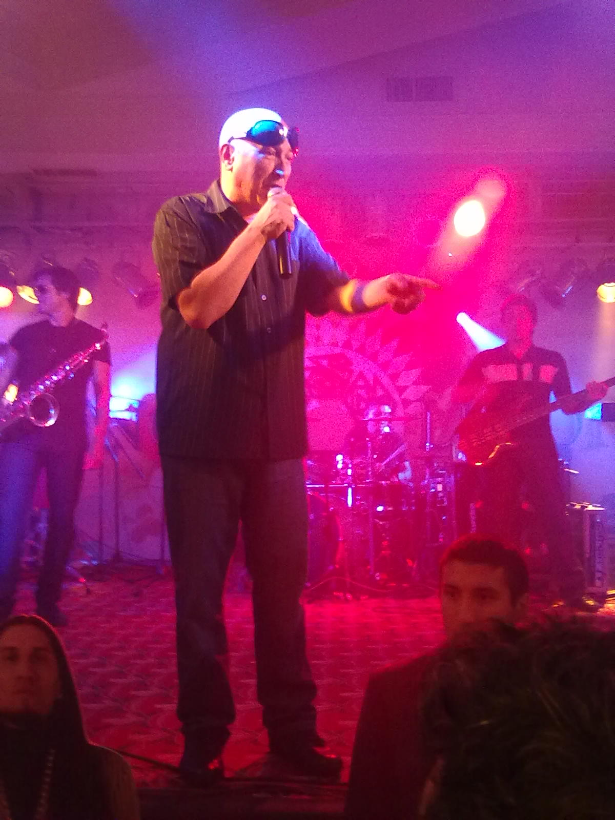 Guillermo Novellis singing in a private show of La Mosca Tse-Tse band. Show played in Corrientes' Casino, Argentina for Carsa company.